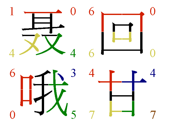 Four corner input method demonstration